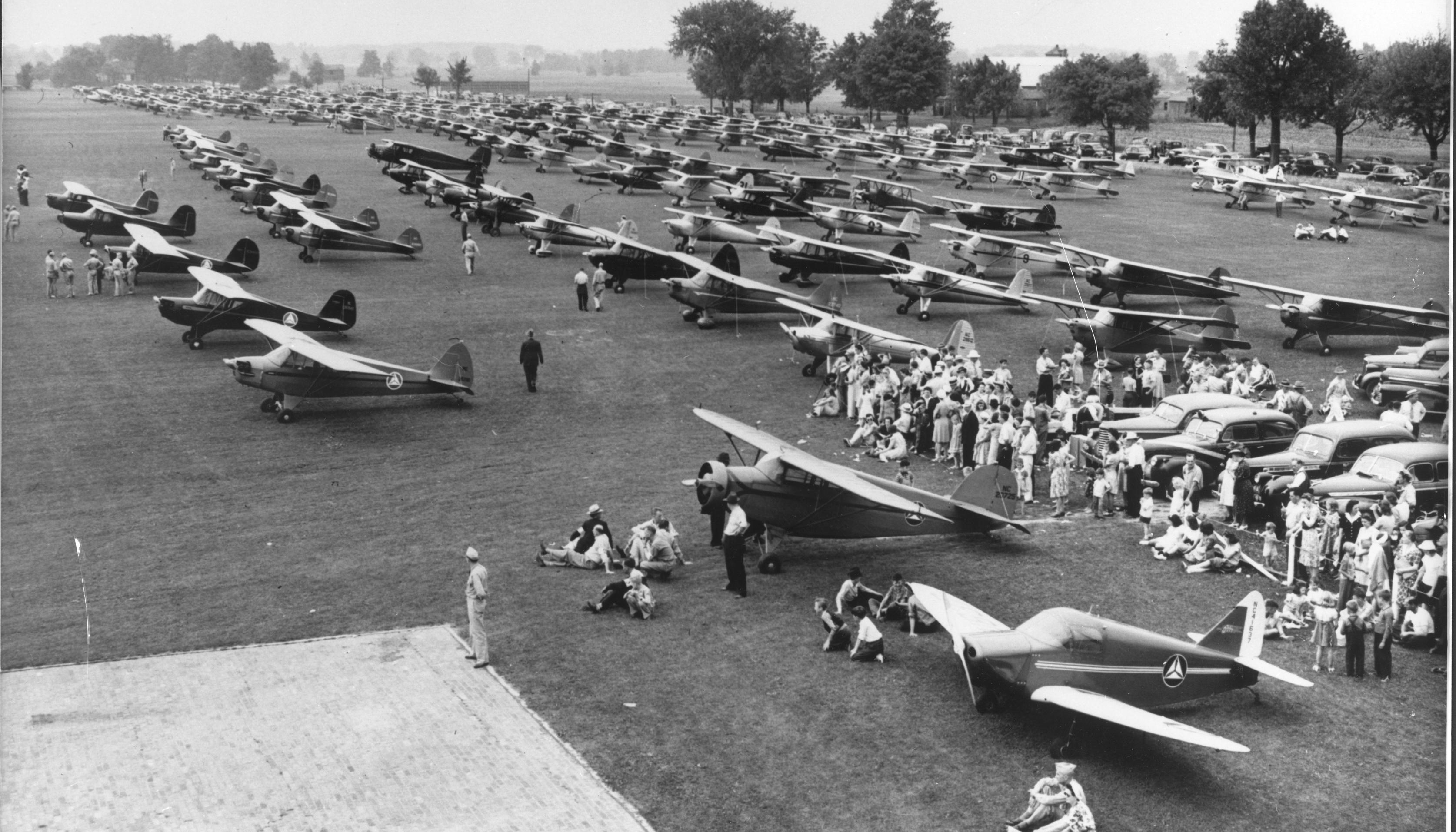 Civil Air Patrol is the newest addition to the U.S. Air Force’s Total Force, joining the Air National Guard and Air Force Reserve in bolstering the military branch’s ability to carry out its mission in the most effective and efficient manner possible. CAP has been the Air Force’s official auxiliary since May 1948. With a founding date of Dec. 1, 1941, the volunteer organization actually predates the Air Force’s existence. Its subsequent role in protecting the homeland during World War II earned it the Congressional Gold Medal in December, as CAP members on the Atlantic and Gulf coasts flew patrols for and eventually stopped German U-boat attacks on U.S. oil tankers during the conflict. In the heartland, others --including members at this base in Lansing, Michigan, in 1942 -- towed targets for military trainees, spotted forest fires, conducted search and rescue missions, provided disaster relief and emergency transport of people and parts and conducted orientation flights for future pilots.